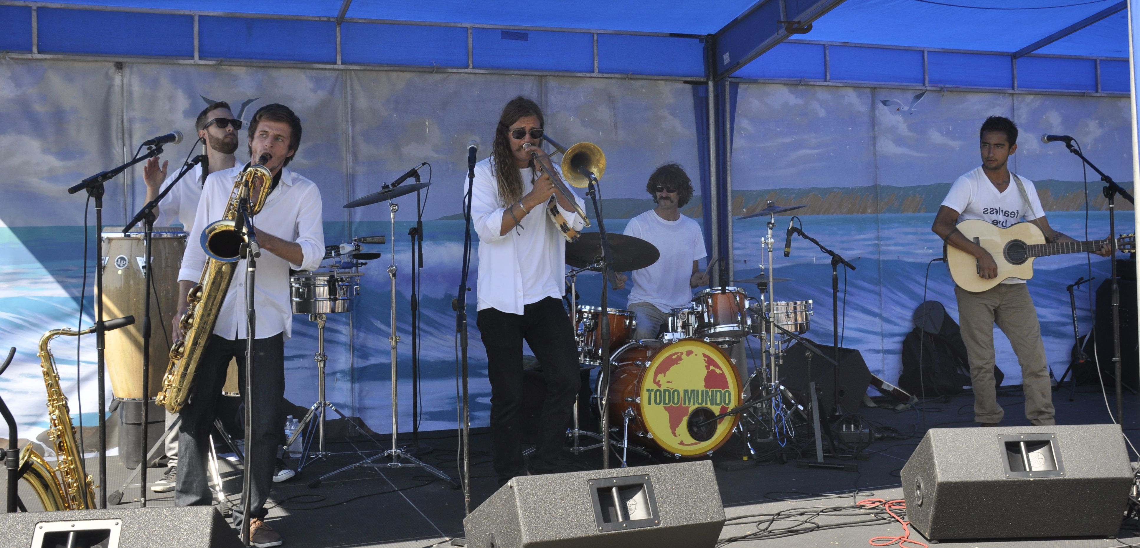 Todo Mundo band playing at La Jolla Concerts by the Sea in Ellen Browning Scripps Park at La Jolla Cove, La Jolla, CA. Band members: Santiago Orozco - Guitar/Lead Vocals Stephen Gentillalli - Bass Matt Bozzone - Drums Jacob Russo - Percussion Brad Nash - Saxophone Willie Fleming - Trombone